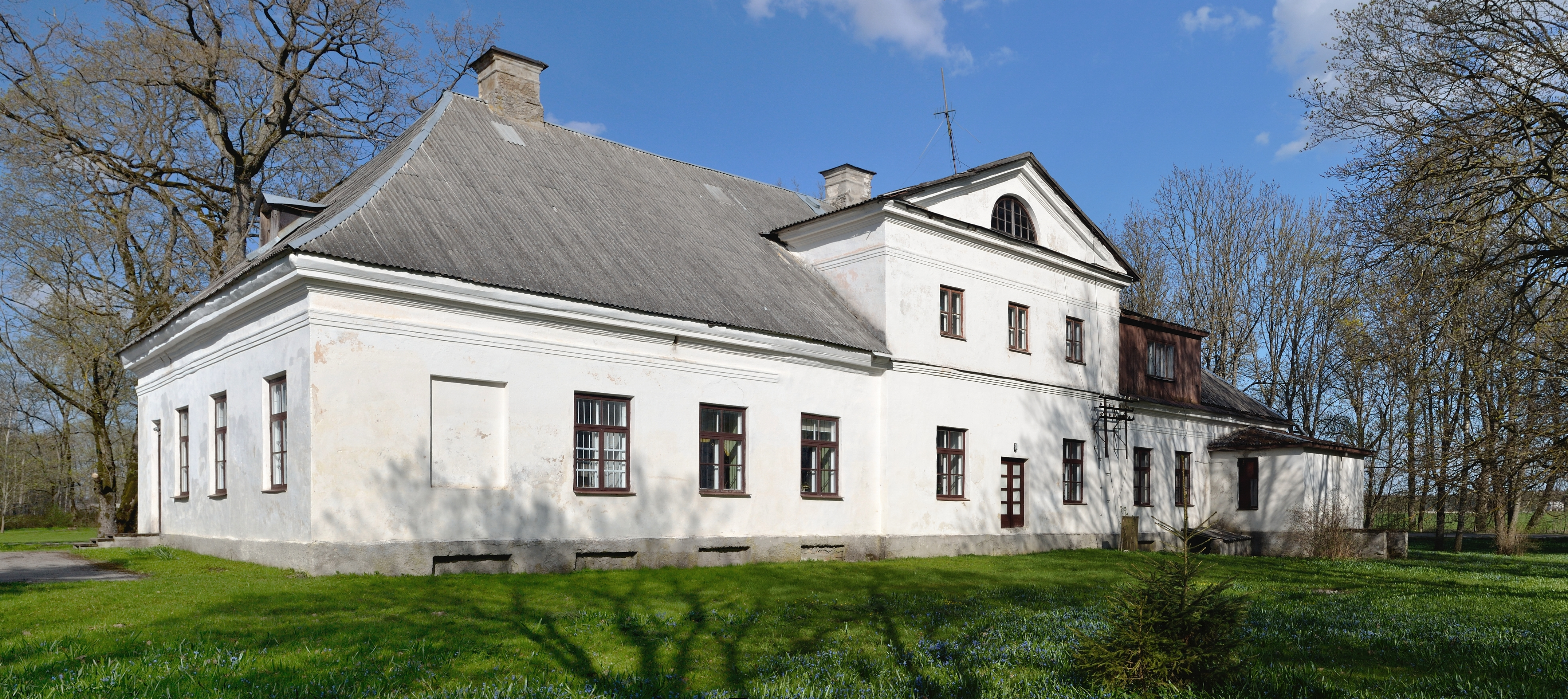 Kurisoo manor main building